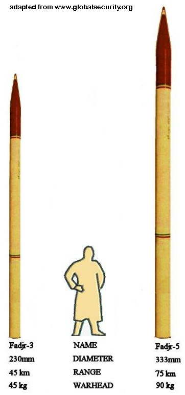 SIZE DIAGRAM